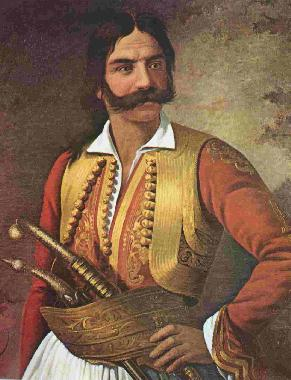 Portrait of Kyriakoulis Mavromichalis from the Hellenic Parliament Source This picture of Kyriakoulis Mavromichalis is scanned from a personal set of cards that belonged to my family depicting scenes of the Greek War of Independence, which consists on a series of portraits about the revolution heroes as well as main events such as major battles etc. that are present one of the Hellenic Parliament main halls. This cards collection dates from 1928 and were a sort of personal kit of the main popular engravings of the epoque called "laiki gravoura".